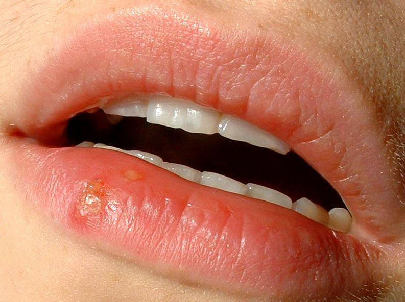 Herpes labialis. Cold sore on the lower lip (cluster of fluid-filled blisters = very infectious). These infections may appear on the lips, nose or in surrounding areas. The sores may appear to be either weeping or dry, and may resemble a pimple, insect bite, or large chicken-pox lesion. Lesions typically heal after a few days to a week (or more); this varies among individuals. In spain is knowe as "fuego labial"